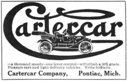 Cartercar Company - Pontiac, Michigan - 1912